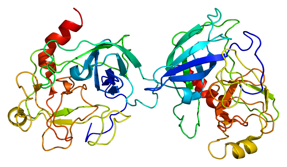 Structure of the GZMB protein. Based on PyMOL rendering of PDB 1fq3.